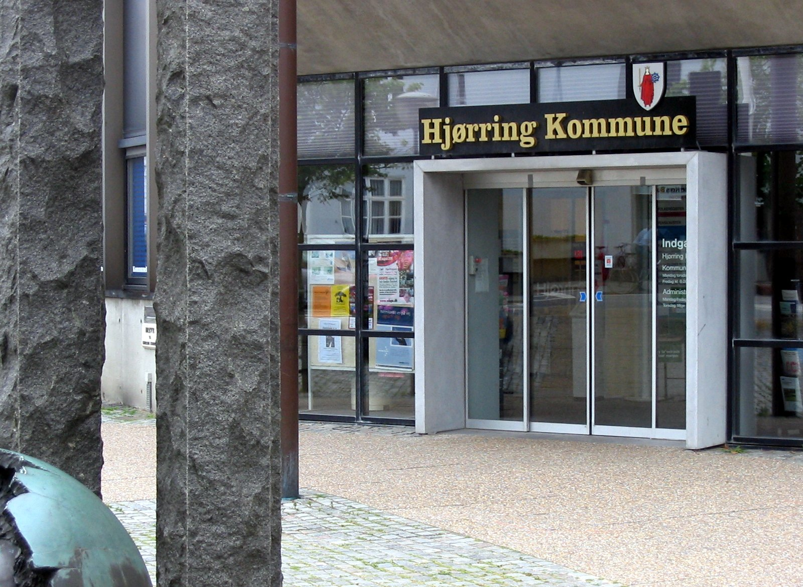 Hjørring Kommune offices